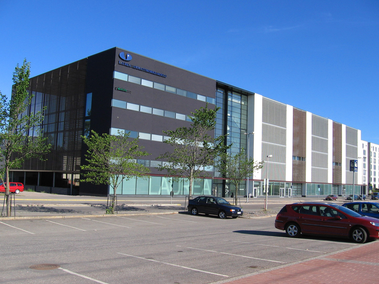 Laurea University of Applied Sciences in Vantaa, Finland